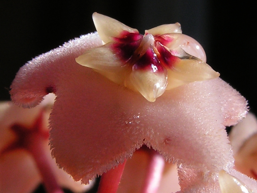 The flower of Hoya carnosa